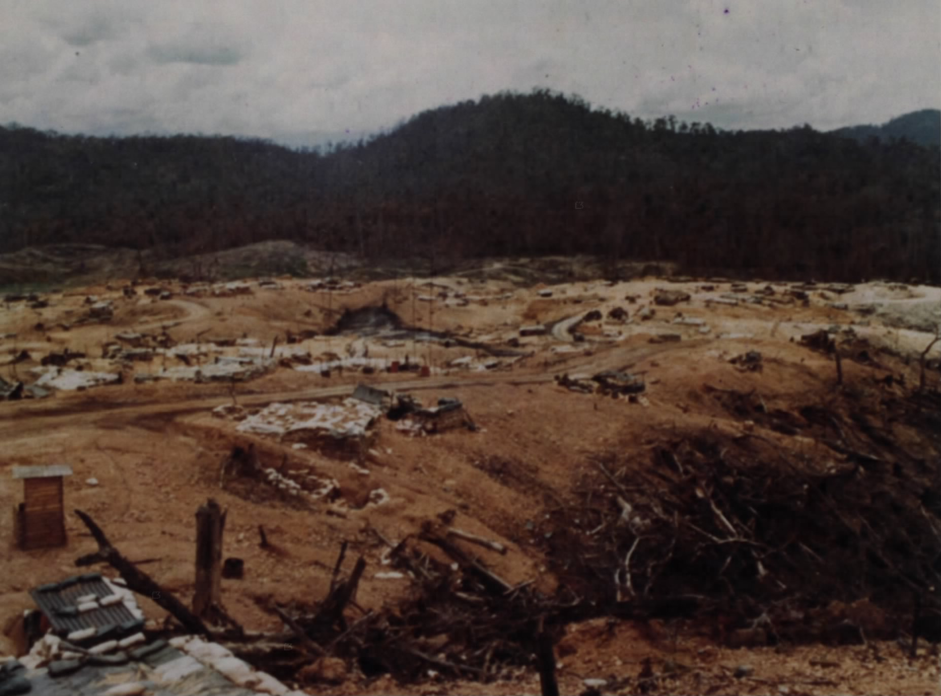 The 27th Eng Bn is reconditioning the bunkers and firing positions in support of the 101st Airborne Division, at Fire Base Bastogne.